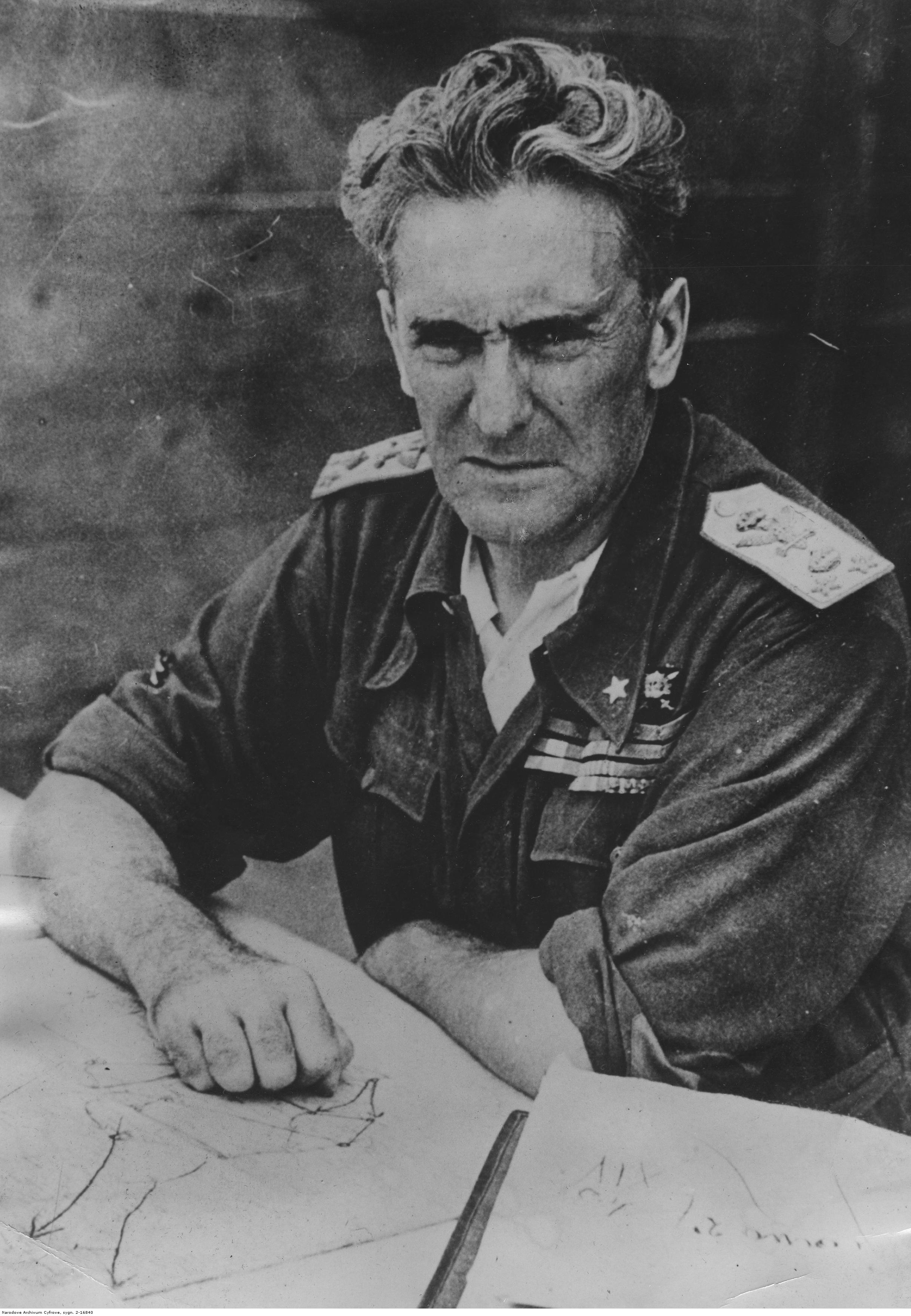 Italian Fascist Marshal Rodolfo Graziani